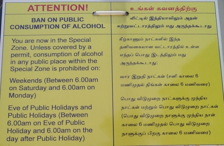 Part of a sign indicating a ban on the public consumption of alcohol in a Special Zone in Little India, Singapore. The Special Zone was established by the Public Order (Additional Temporary Measures) Act 2014 (No. 12 of 2014) following the 2013 Little India riot.